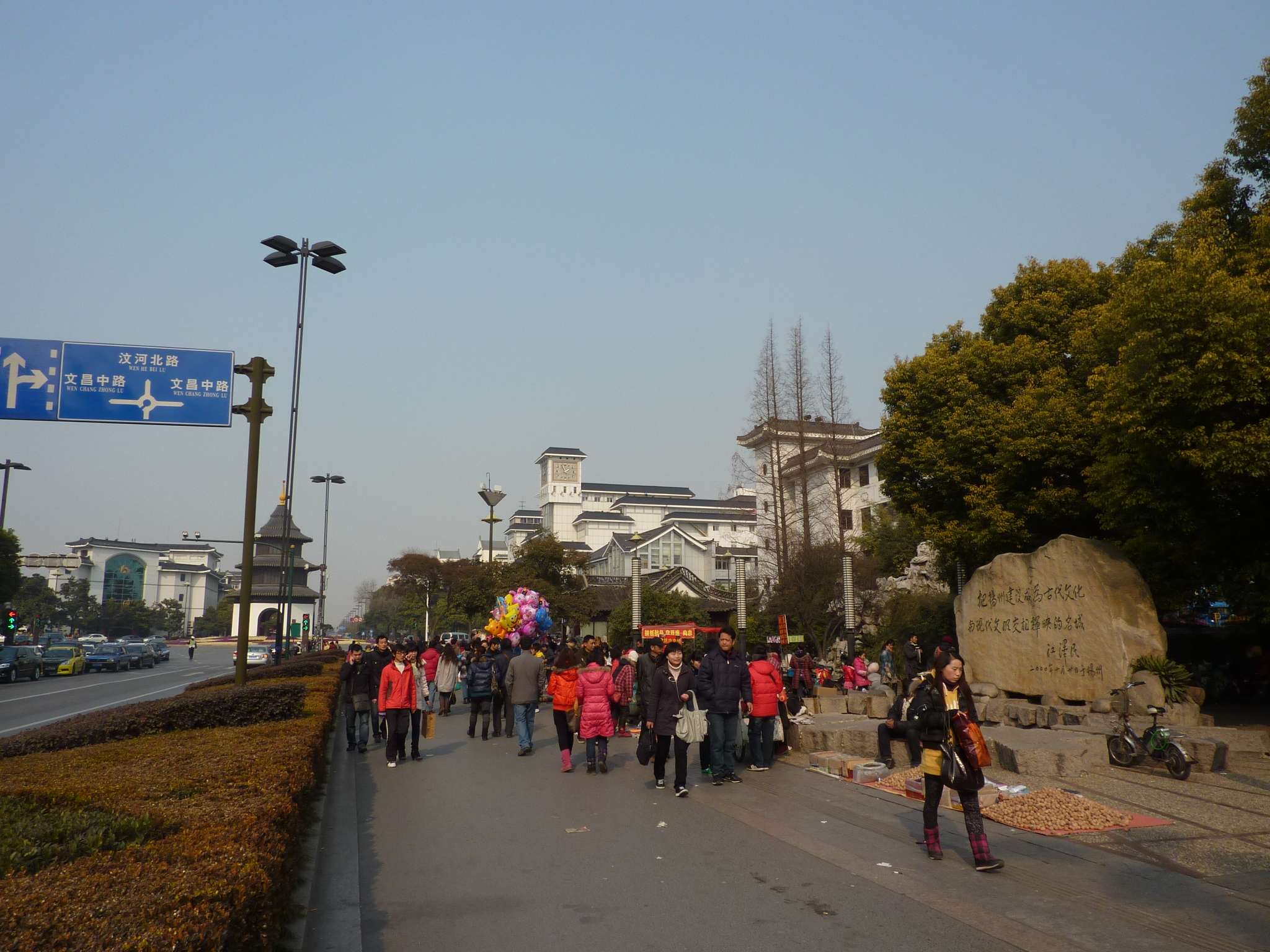 A stone with Jiang Zemin's inscription by the side of Yangzhou's Wenhe Rd, near Wenchang Square